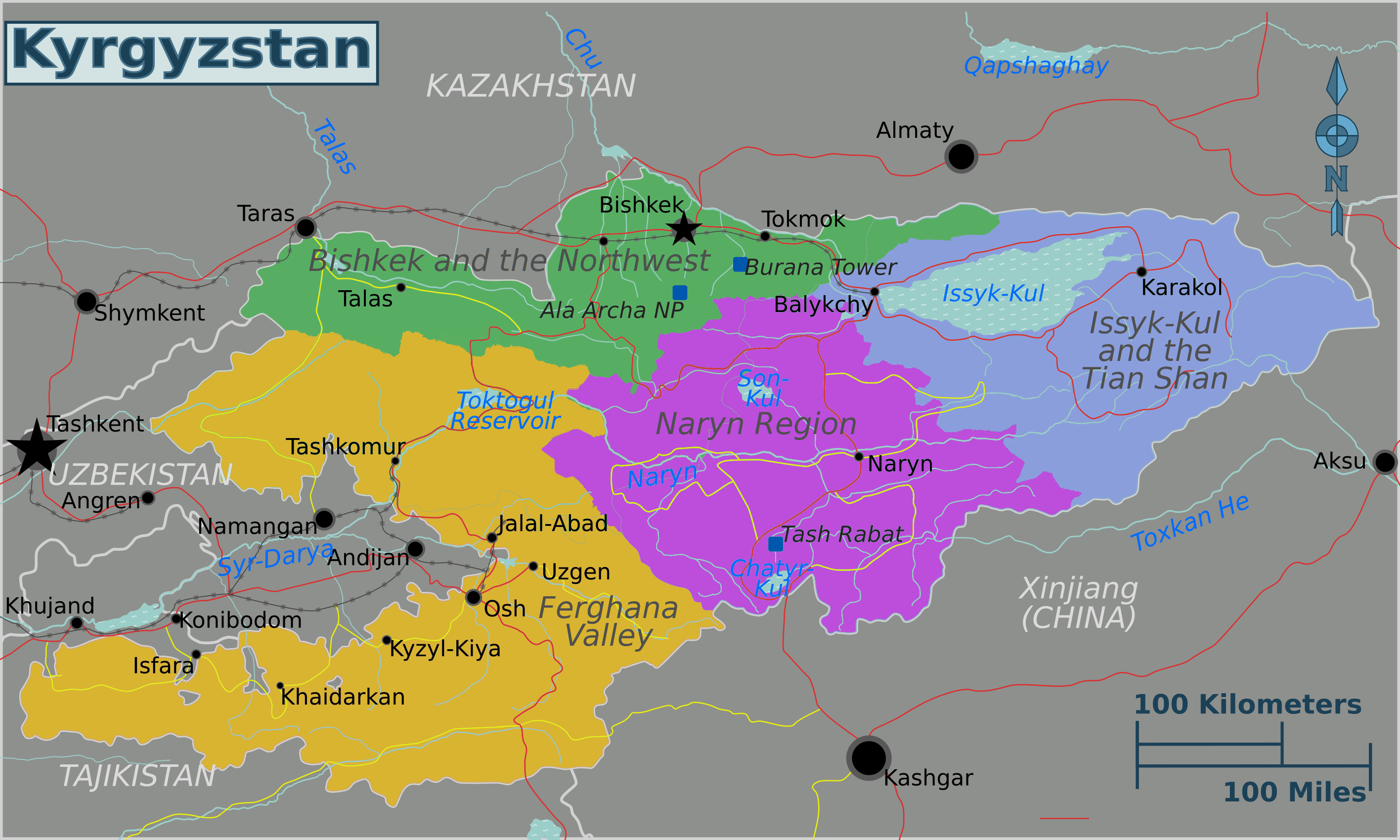 Kyrgyzstan regions map for use on Wikivoyage, English version as of 2020. Adjusted from the former map but now based on the administrative regions of Kyrgyzstan.